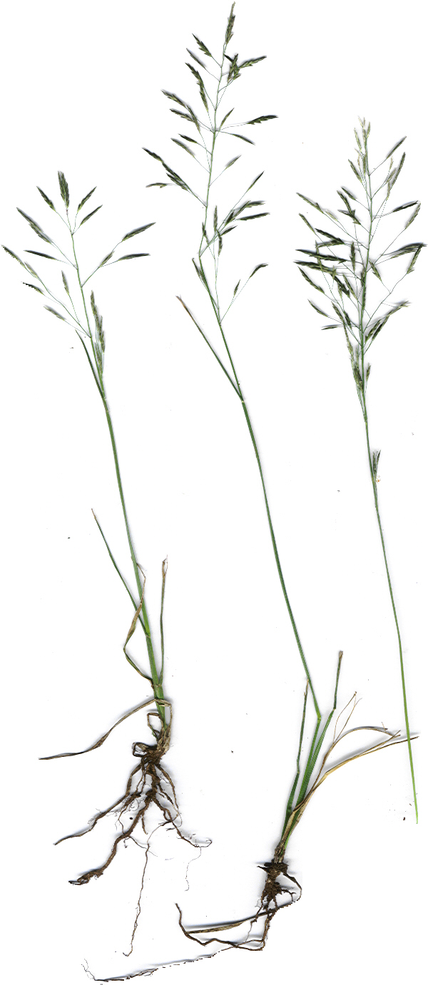 Eragrostis pectinacea (plant). Location: Maui, Makawao driveway